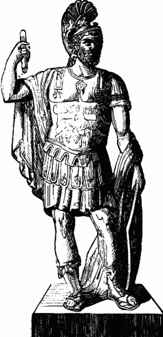 Pyrrhus